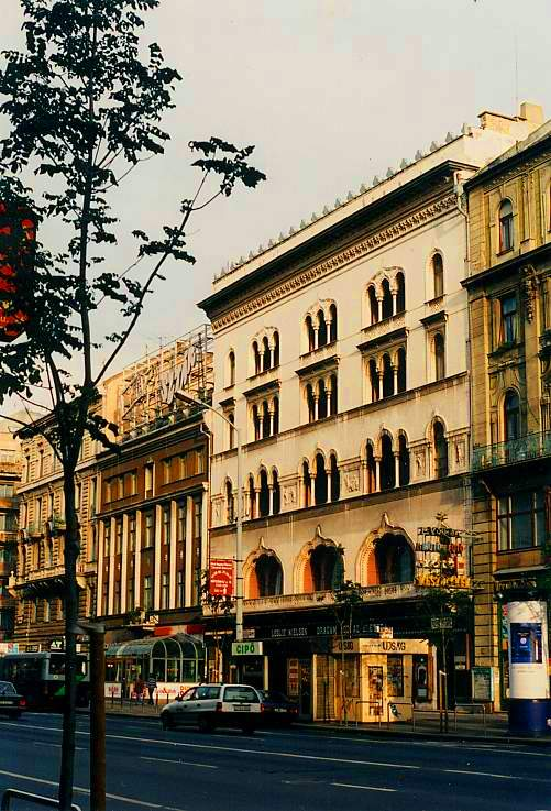 The first consciously made Hungarian film was 'A tánc' (The Dance) directed by Béla Zsitkovszky, which came to life as an illustration to one of the shows of the Uránia Scientific Theatre. Gyula Pekár asked for a moving picture from Béla Zsitovszky, the projectionist of the Uránia. Zsitovszky, originally an optician, shot the picture on the roof terrace of the theatre with renowned actors and ballerinas of the Operaház theatre. The 24 cinematographic short-films were premiered on 30 April 1901.